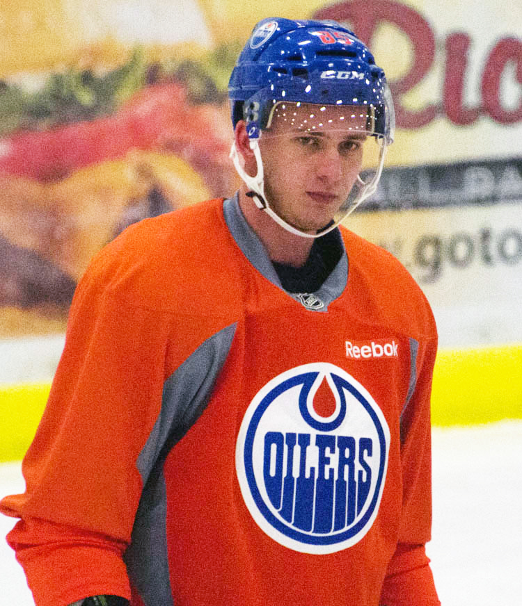 Martin Marincin at an Edmonton Oilers practice, Sept. 27, 2014